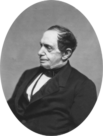 Portrait of Johns Hopkins